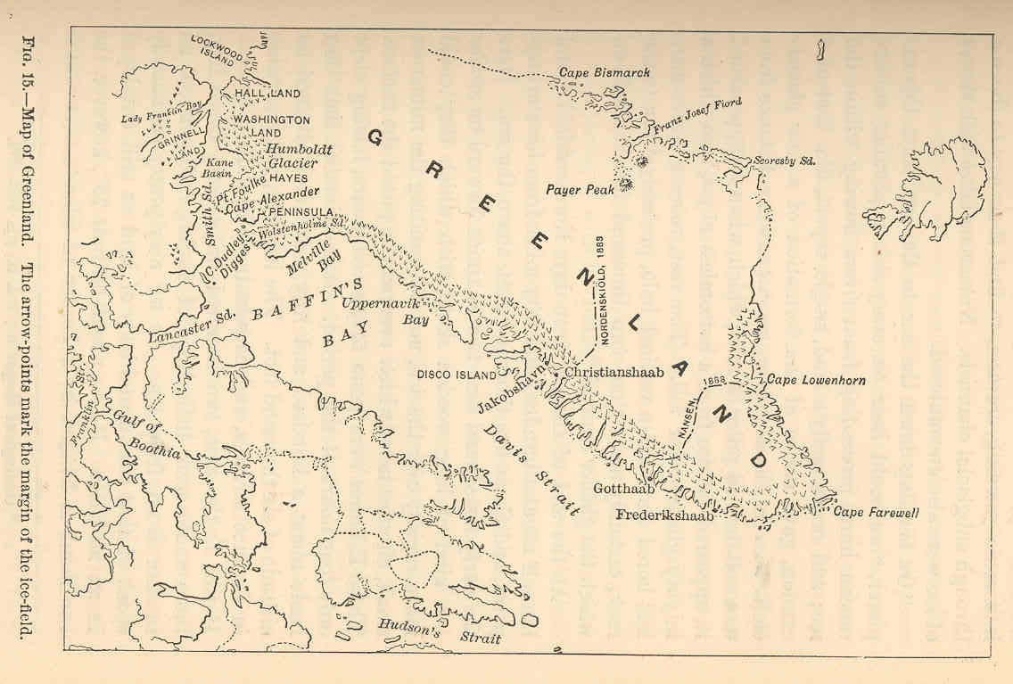 Map of Greenland. The arrow-points mark the margin of the ice-field Subject: Greenland--Maps, Glaciers--Greenland--Maps Geographic Subject: Greenland Tag: Polar